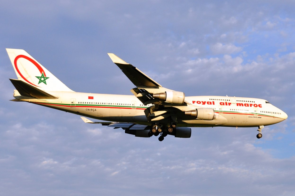 Royal Air Maroc CN-RGA Boeing 747